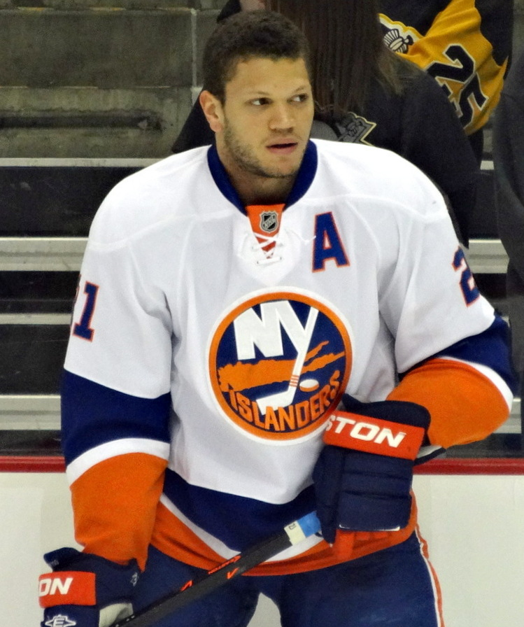 New York Islanders forward Kyle Okposo during round one, game five of the 2013 Stanley Cup playoffs against the Pittsburgh Penguins, May 9, 2013 at Consol Energy Center.